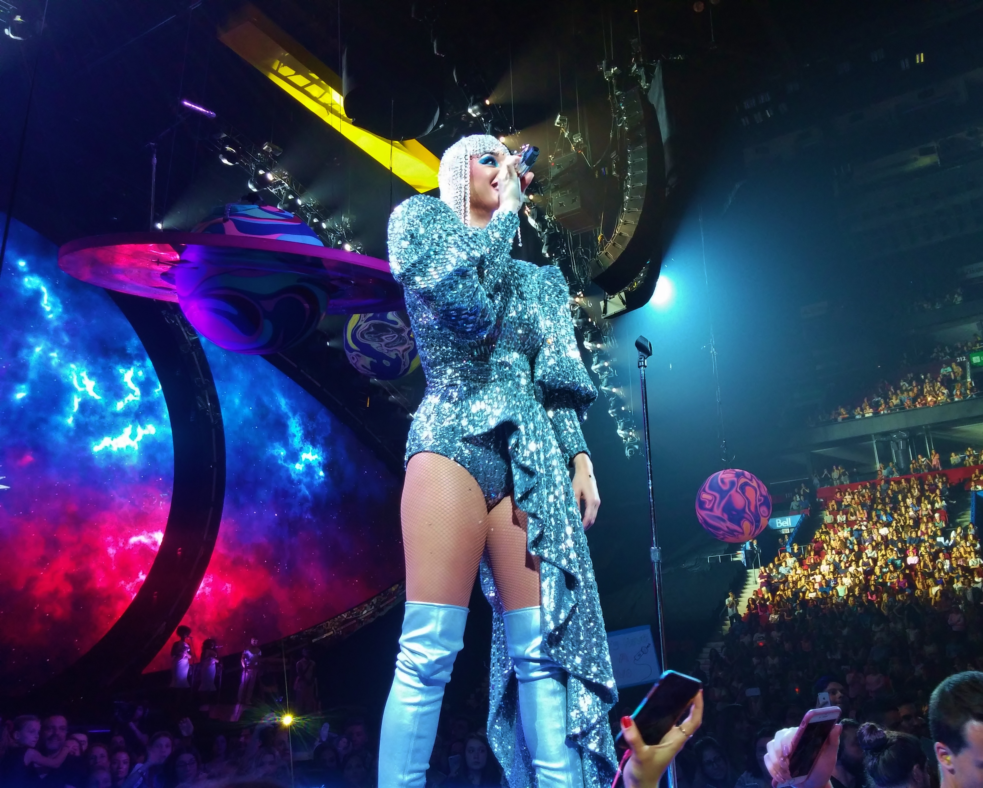 Katy Perry, Witness Tour, Bell Center, Montréal, 19 September 2017 (9)